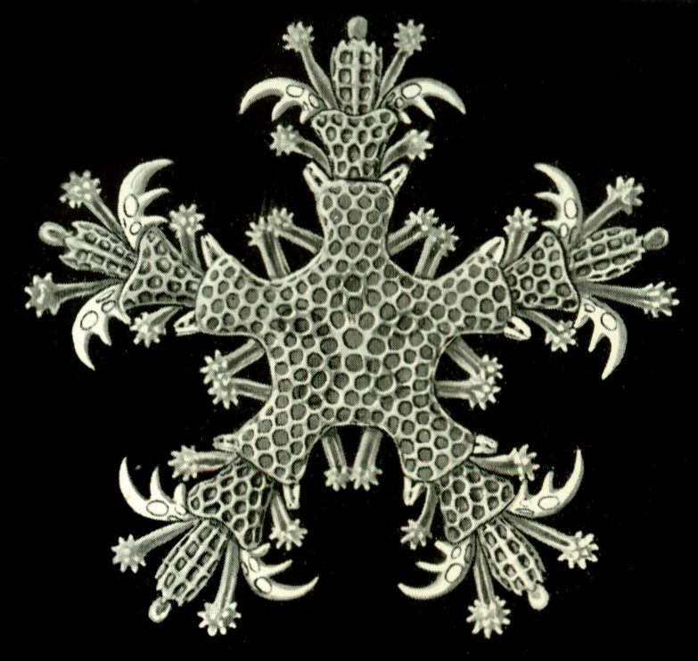 Haeckel Amphoridea-8. See here for index to numbers.